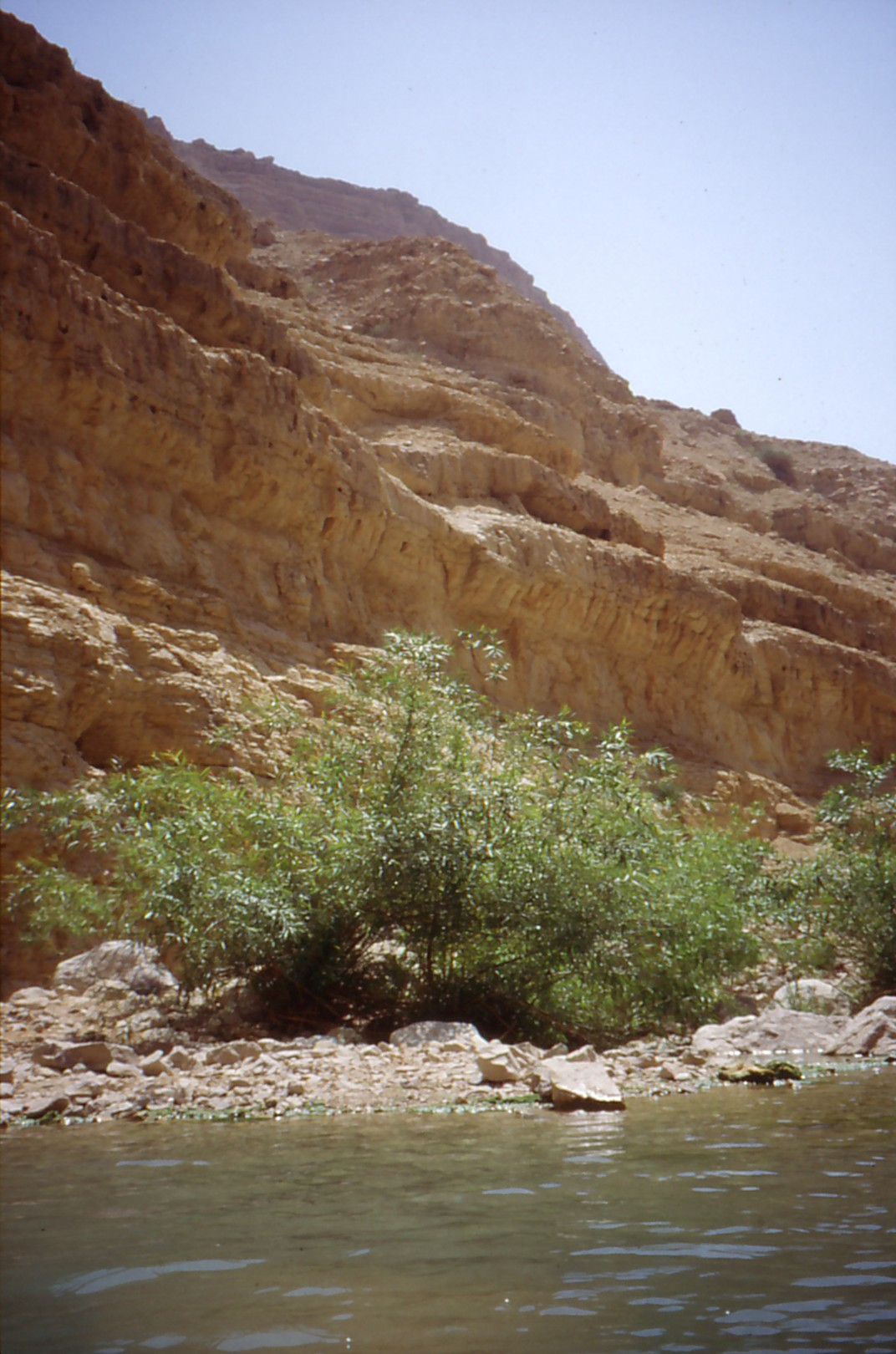 Bushes in Nahal Arugot at the oasis of En Gedi (Dead Sea, Israel) Büsche im Nachal Arugot in der Oase von En Gedi am Toten Meer (Israel)